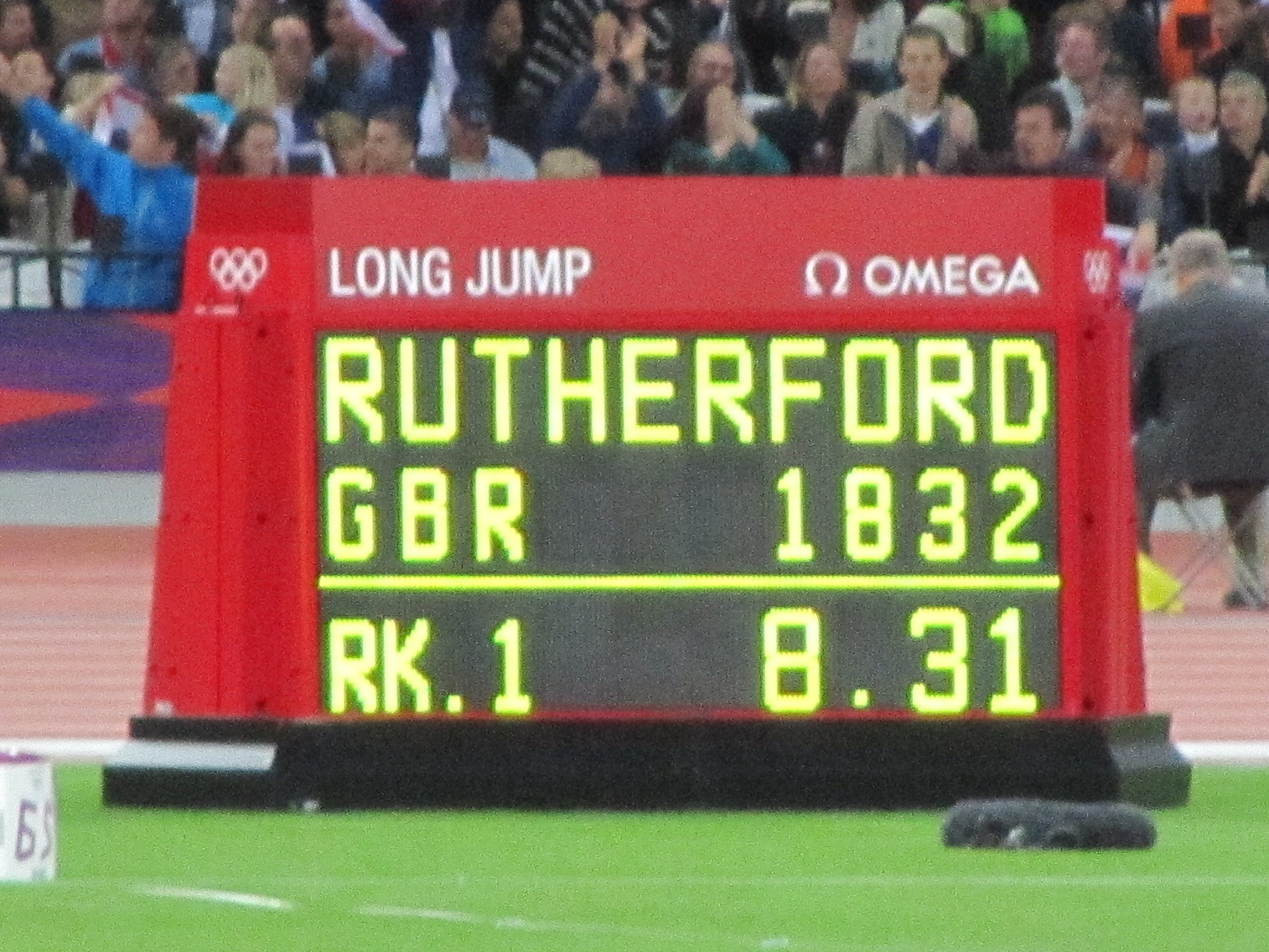 Greg Rutherford's distance after his gold-medal-winning jump at the London 2012 Olympic Games